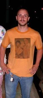 This photograph is under ownership of Joseph R. Graniczny. I Joseph R. Graniczny grant full privilege of this image to Wikipedia under the terms of fair use. Any questions can be directed to Joseph R. Graniczny (940) 210-4969